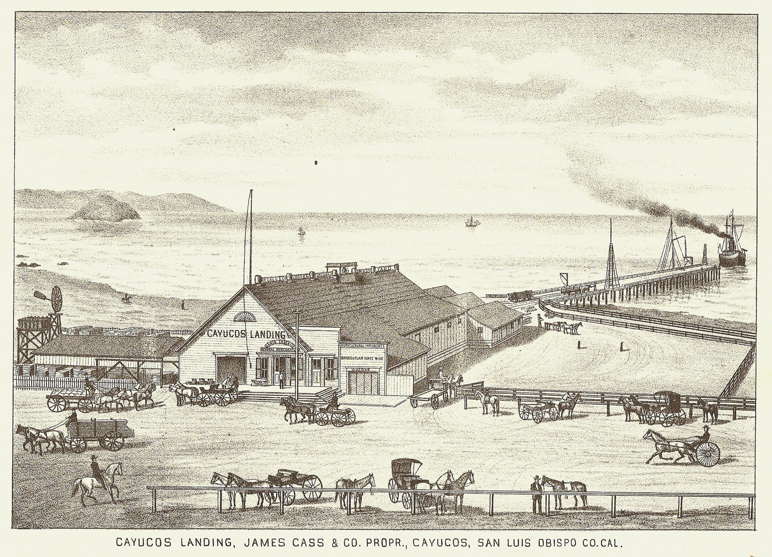 Captain James Cass & Company proprietors. The wharf was 380 feet long. Capt. Cass was in partnership with Wm. L. Beebee, John Harford and L. Schwartz.